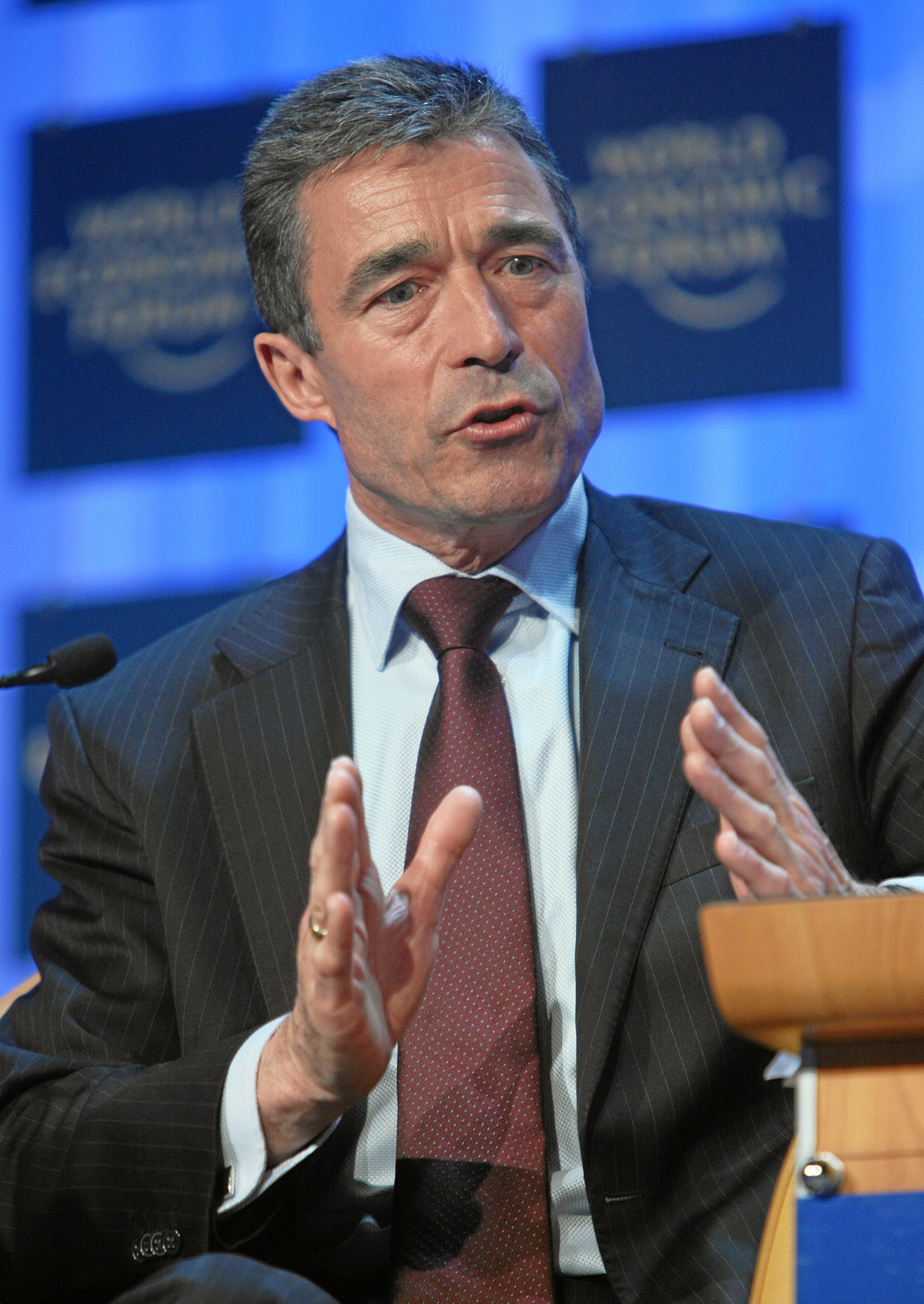 Anders Fogh Rasmussen, Prime Minister of Denmark, captured during the session 'Europe's Purpose' at the Annual Meeting 2008 of the World Economic Forum in Davos, Switzerland, January 26, 2008.